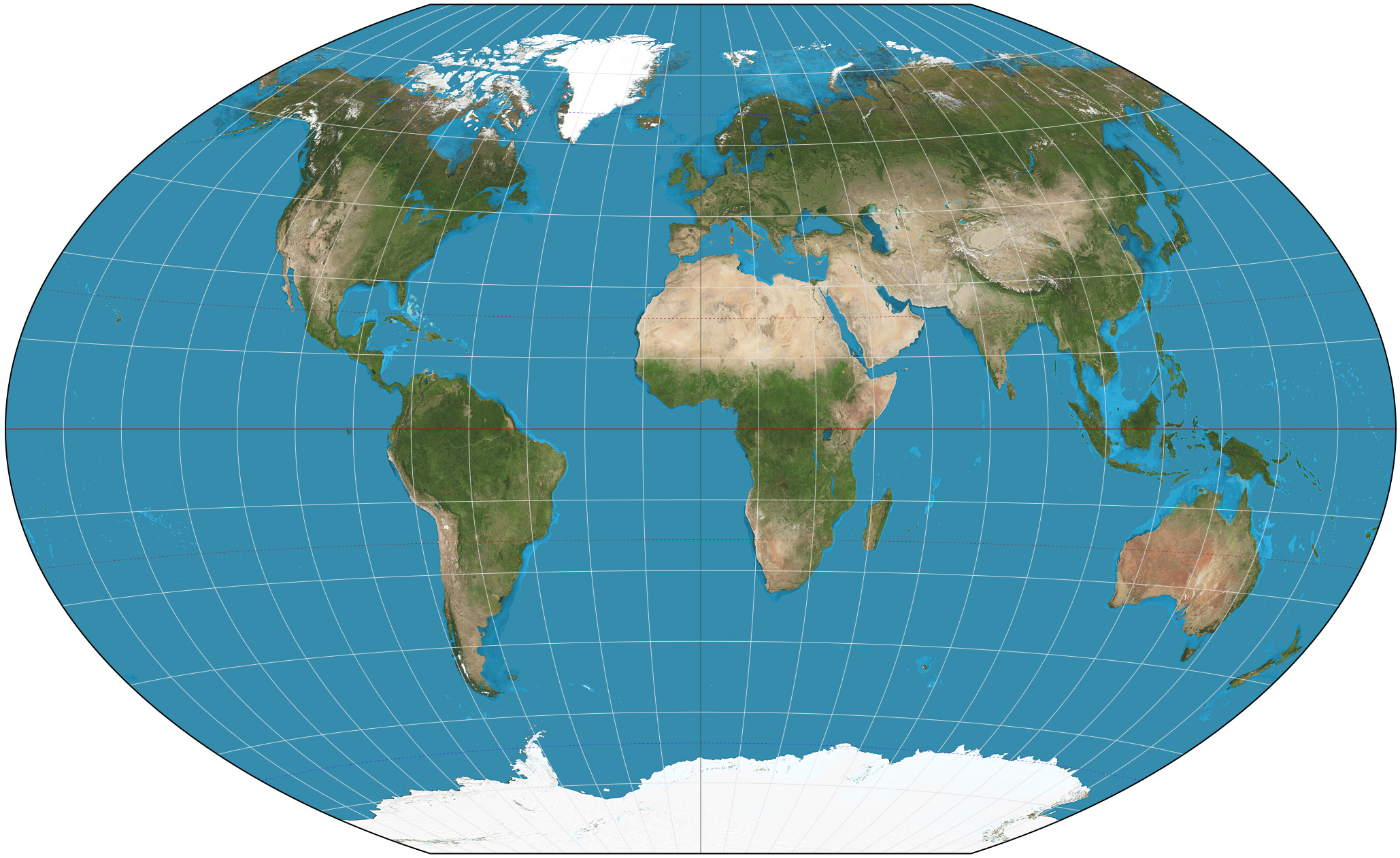 The world on Winkel tripel projection. 15° graticule. Imagery is a derivative of NASA’s Blue Marble summer month composite with oceans lightened to enhance legibility and contrast. Image created with the Geocart map projection software.